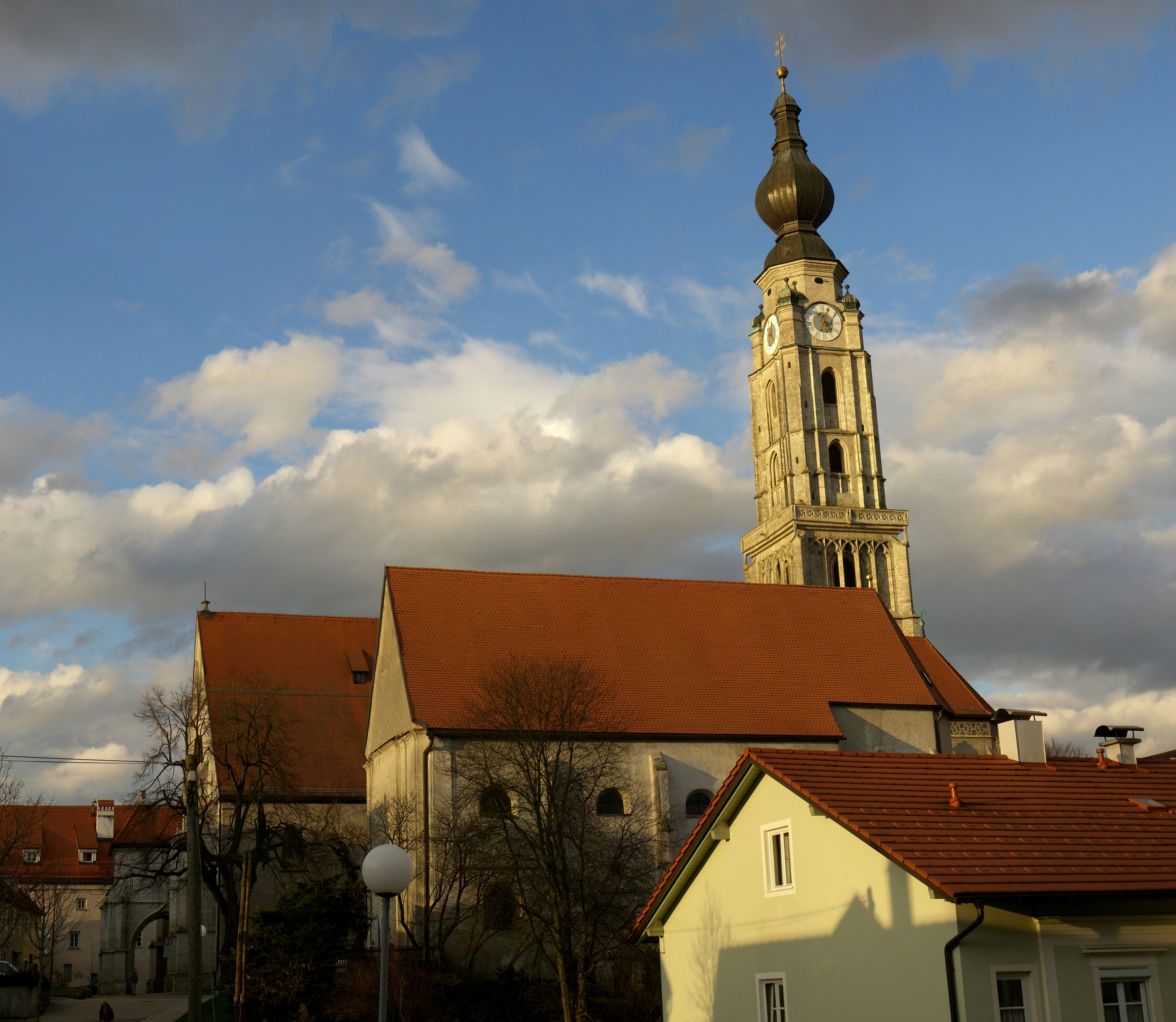 The Stadtpfarrkirche St. Stephan, Braunau am Inn. This is a 24 segment panorama.